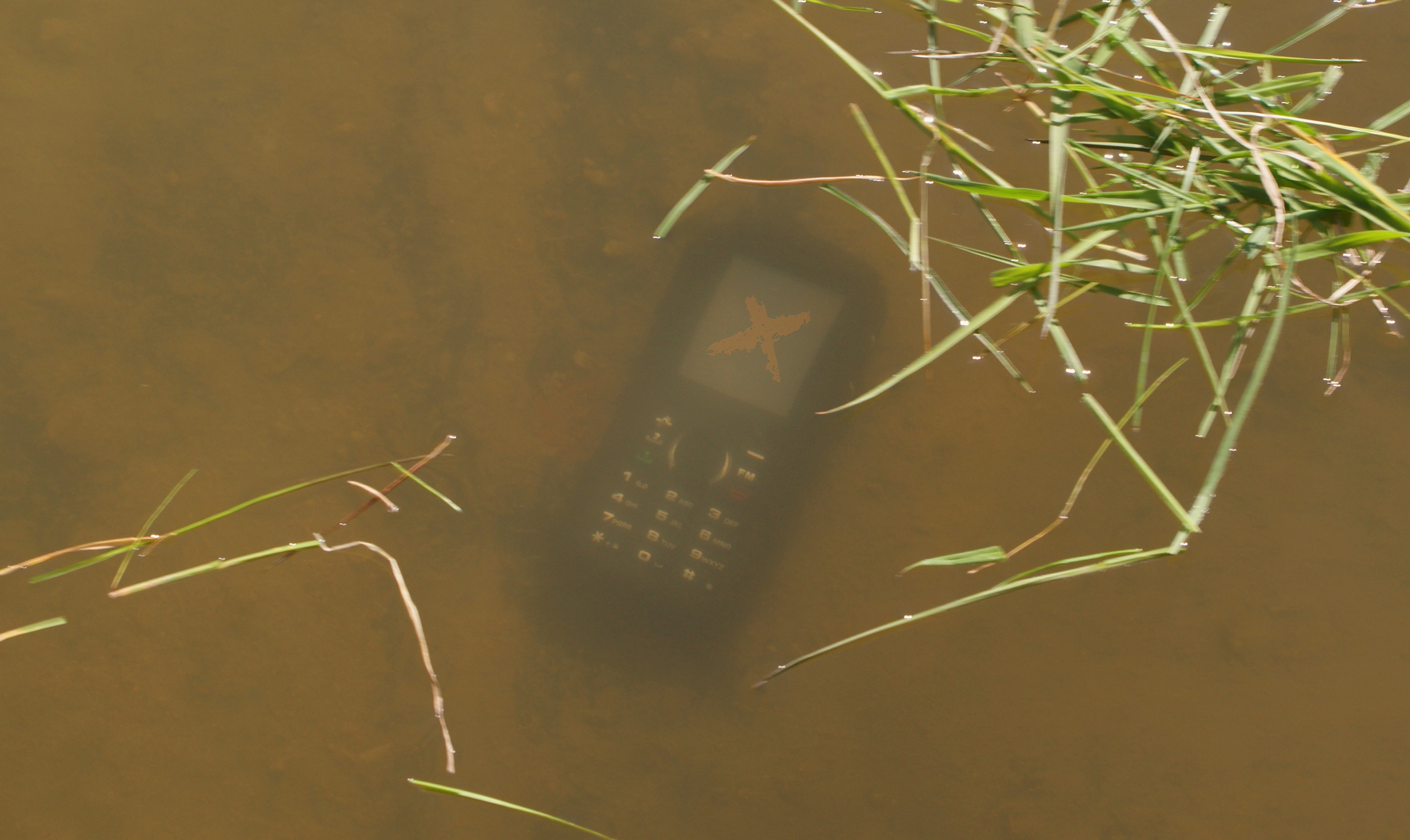 Waterproof rugged mobile phone underwater.